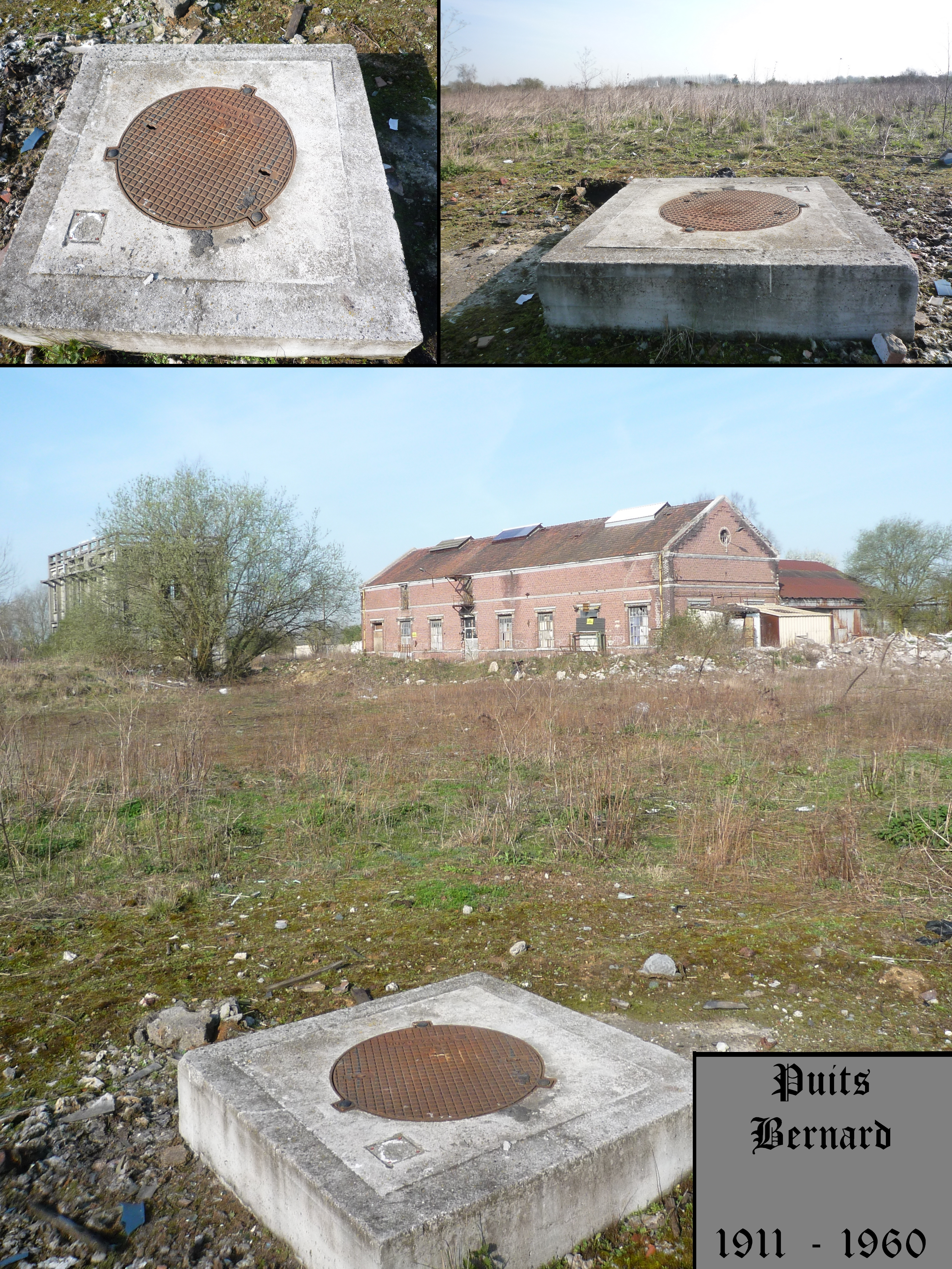 Pit Bernard at Douai, France